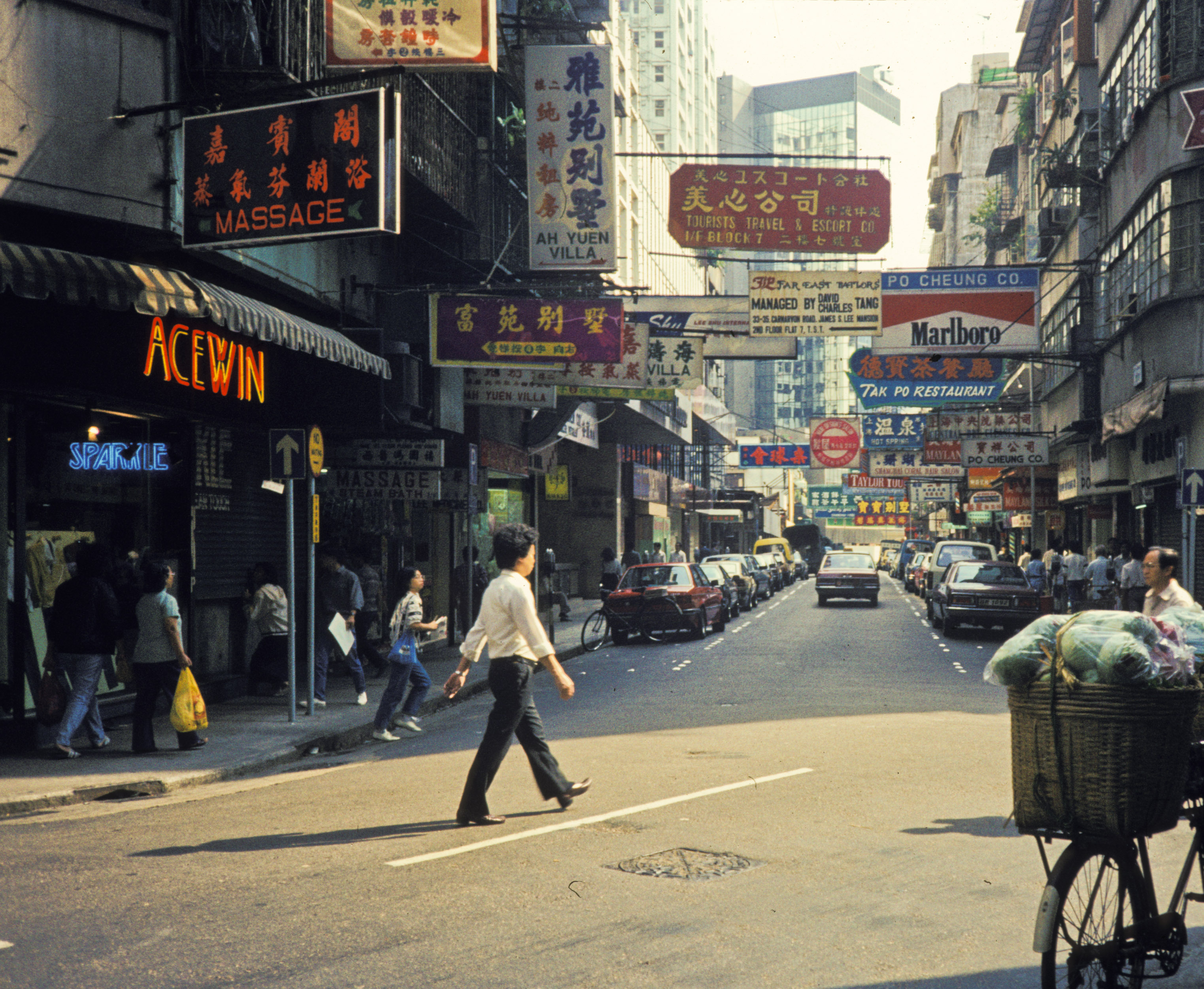 Prat Avenue, Tsim Sha Tsui, Kowloon, Hong Kong. The photographer is looking east from the junction of Prat and Hart Avenue.中文（香港）: 香港尖沙咀寶勒巷